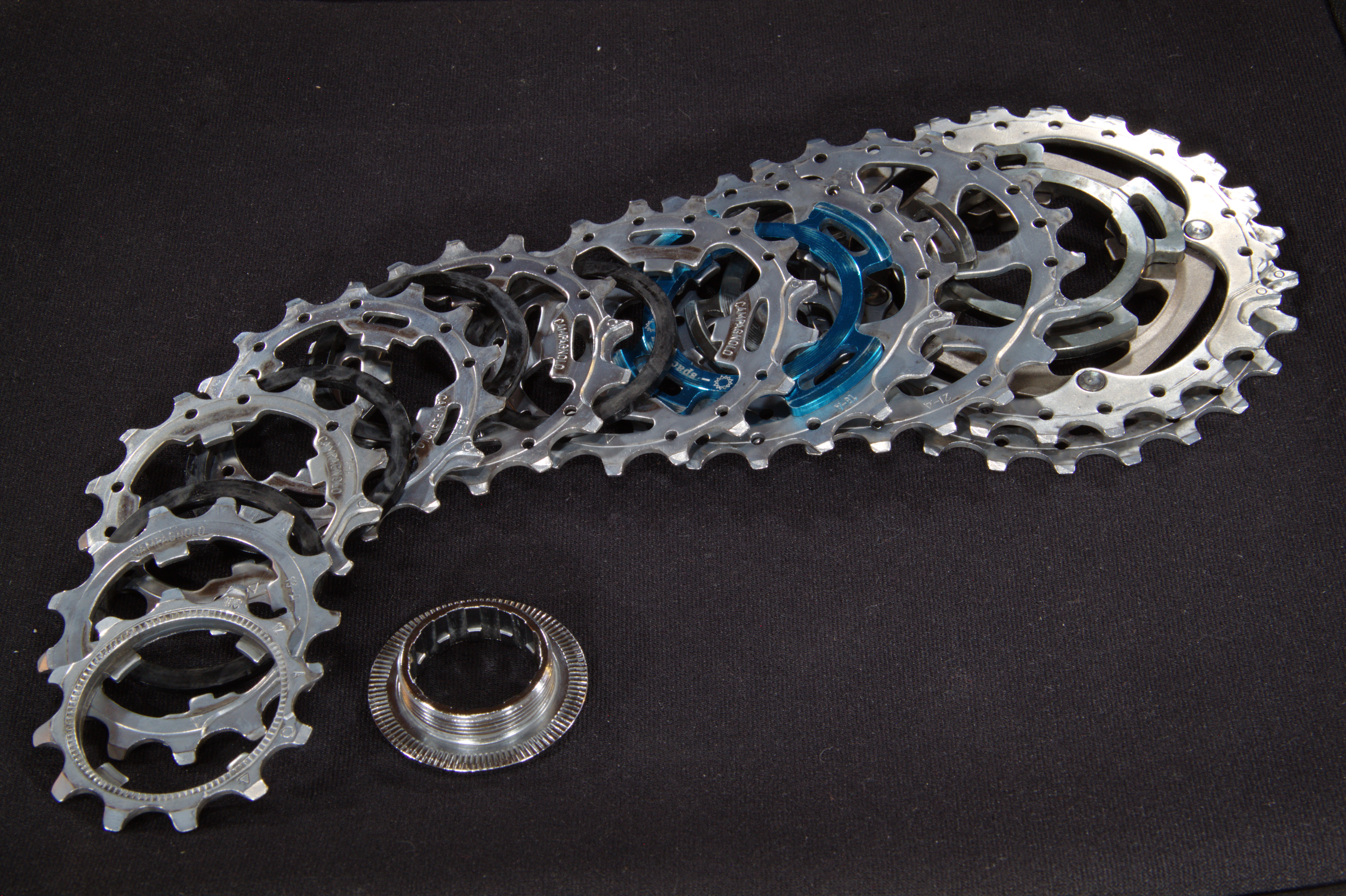 10-speed 12-25 Campagnolo Centaur cassette for a racing bicycle, disassembled.